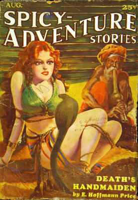 Cover of the pulp magazine Spicy-Adventure Stories (August 1935, vol. 2, no. 5) featuring "Death's Handmaiden" by E. Hoffmann Price.